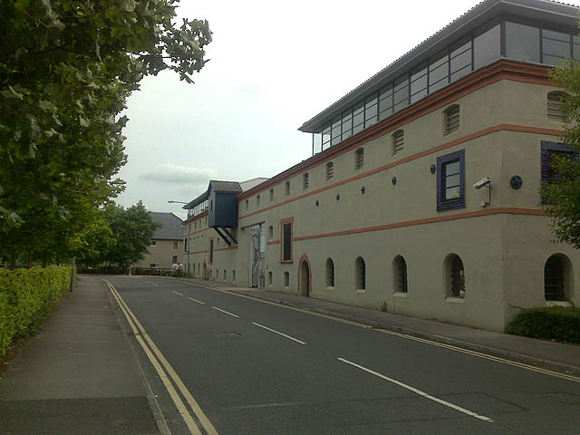 Forbidding Office Building Next to the Newark branch of Waitrose. With a strange allusion to the past in the form of a pastiche of a warehouse hoist balcony.